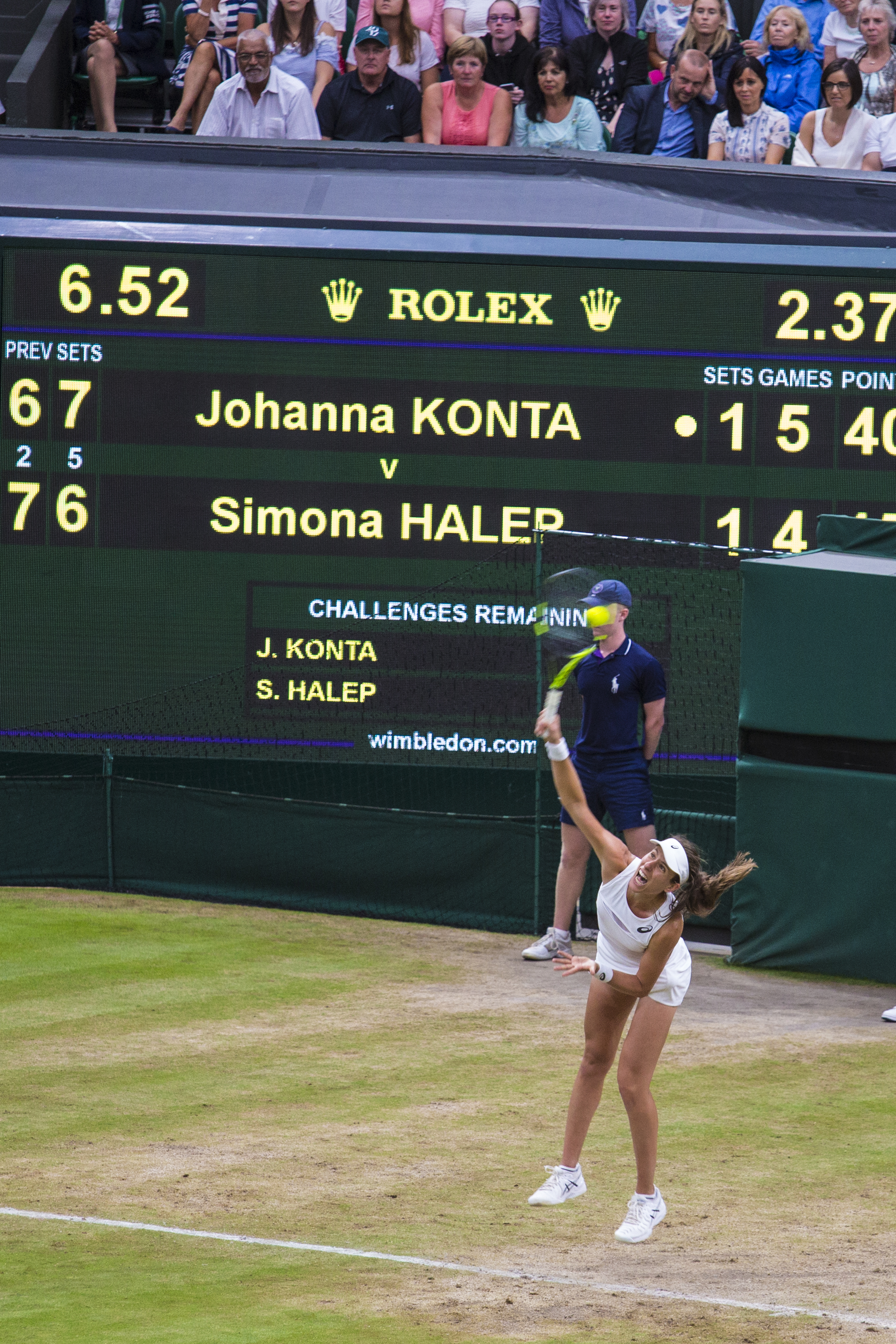 Wimbledon 2017 Photo: Siu Leng Chan Ng